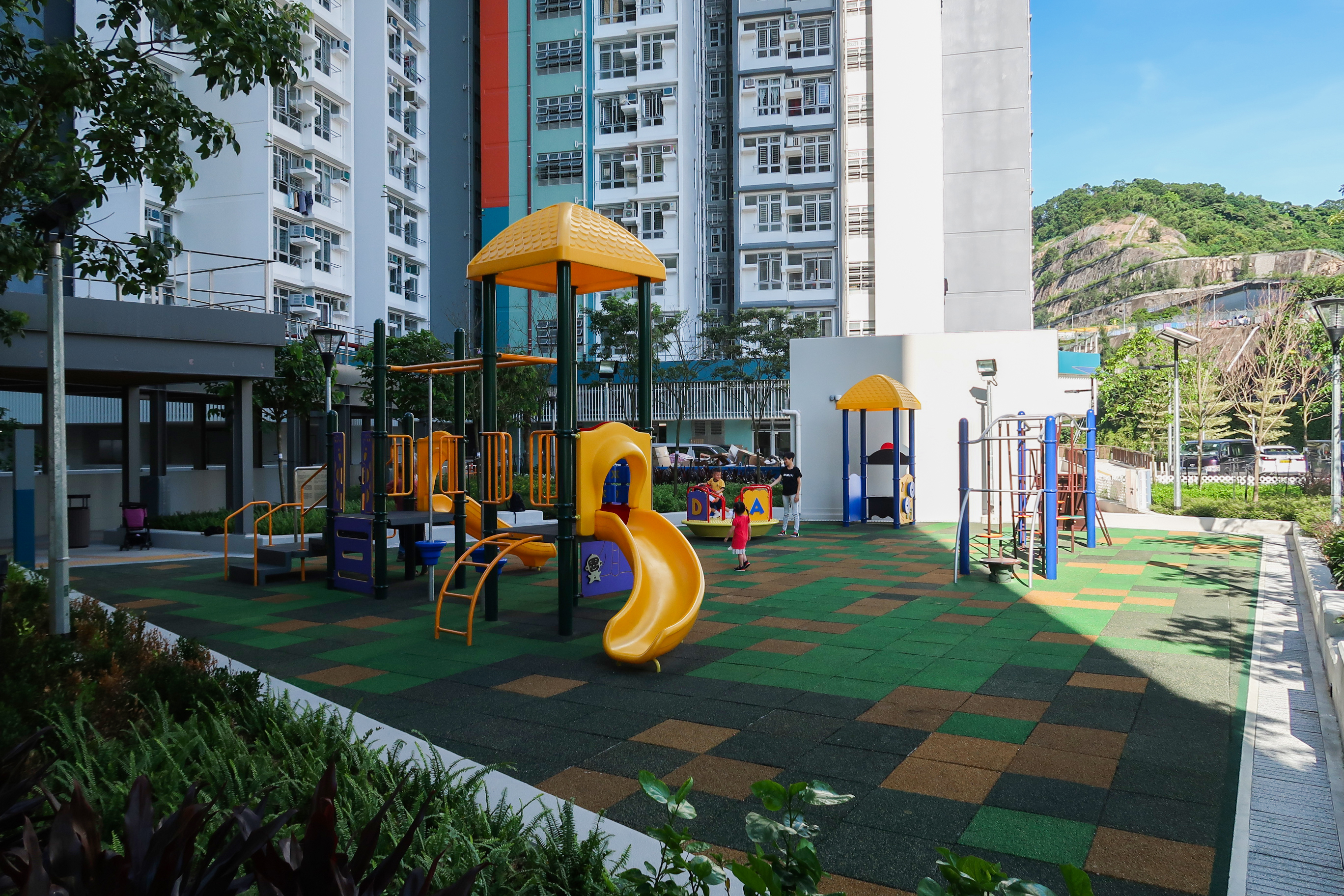 Choi Hing Court Children Play Area